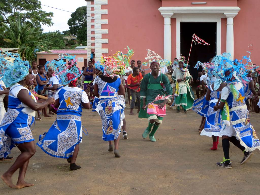 Traditional dancers perform in front of the Igreja de São Pedro at Pantufo on Sao Tome Island, São Tomé and Príncipe.